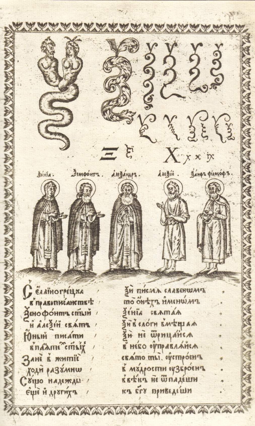 Karion Istomin's alphabet book, letter Ѯ